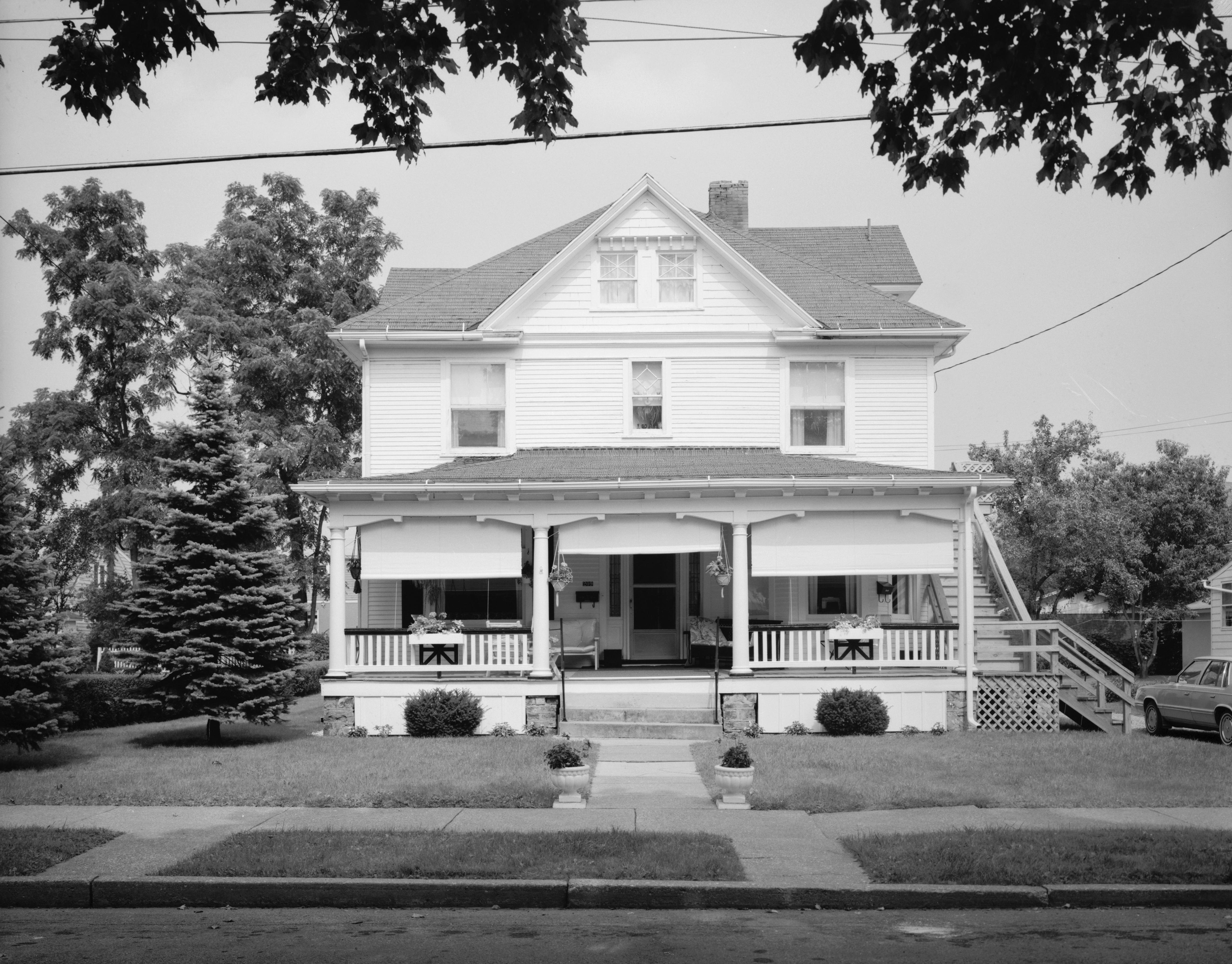 Front of the David G. & Margaret Stewart House, located at 209 Coleridge Avenue in Altoona, Pennsylvania, United States. Built in 1904, it is part of the Llyswen Historic District, a historic district that is listed on the National Register of Historic Places.